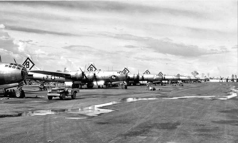 16th Bombardment Group B-29s Northwest Field Guam 1945